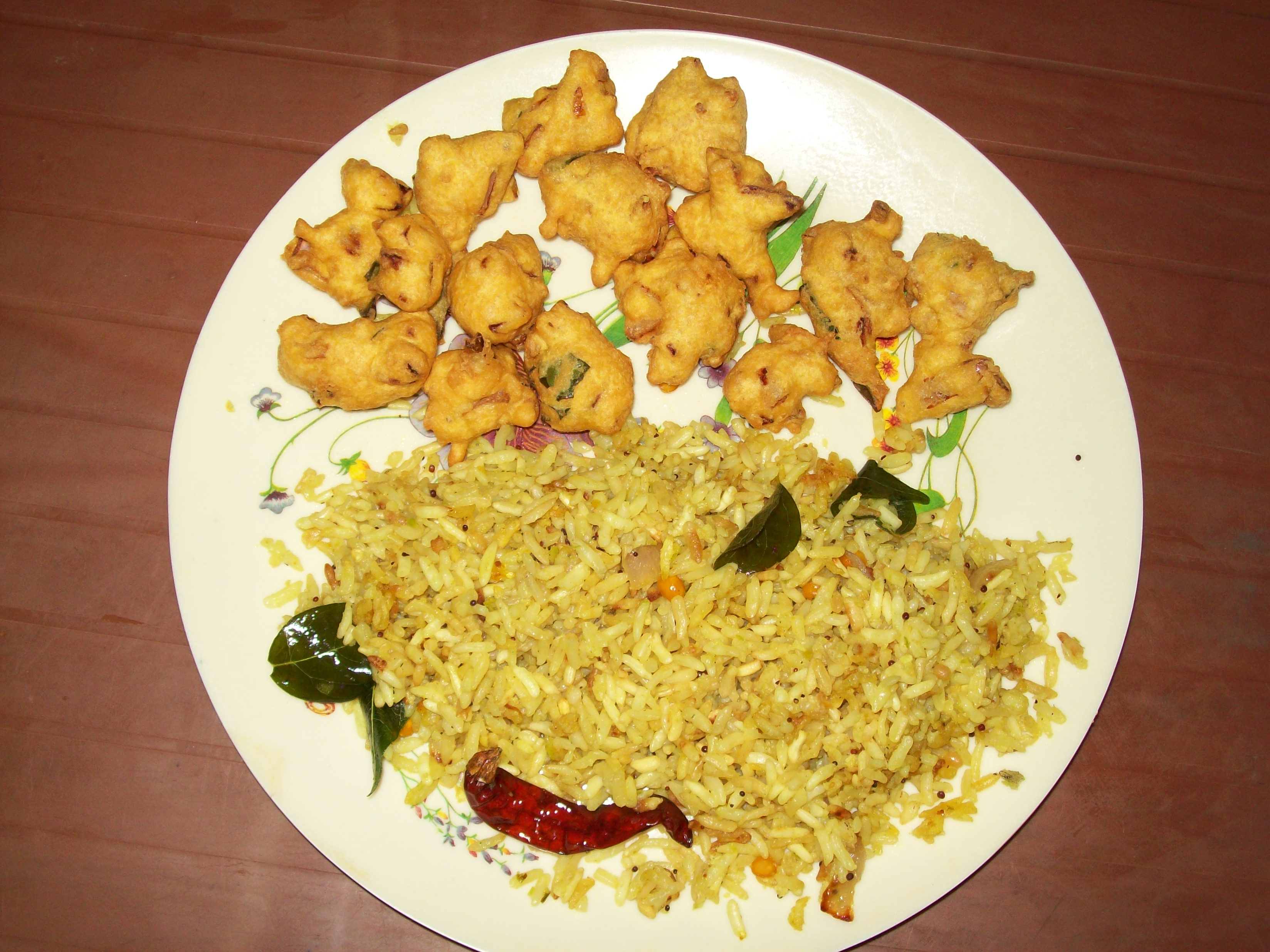 A breakfast from the Rayalaseema cuisine made of steamed puffed rice with a combination of fritter. The puffed rice part is called Uggani, Ogirani, Borugula Tiragavata, Bourugula Chitrannam and the fritters are called Bajji.